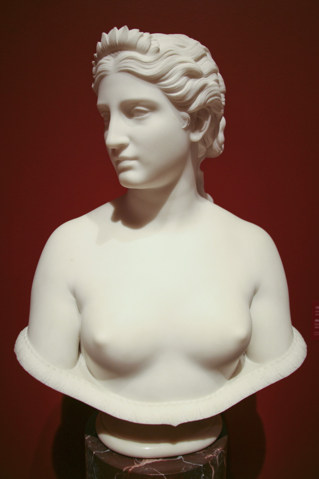 Clytie by Hiram Powers, modeled ca. 1867. Reference: Smithsonian American Art Museum